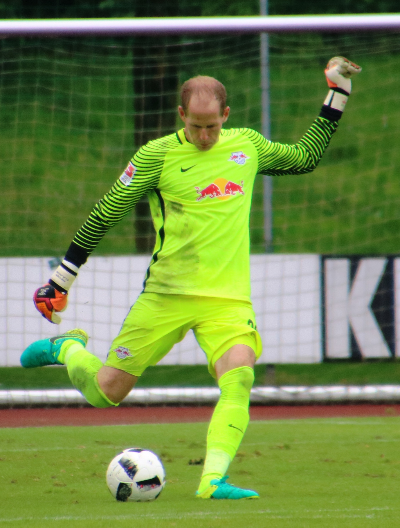 friendly match